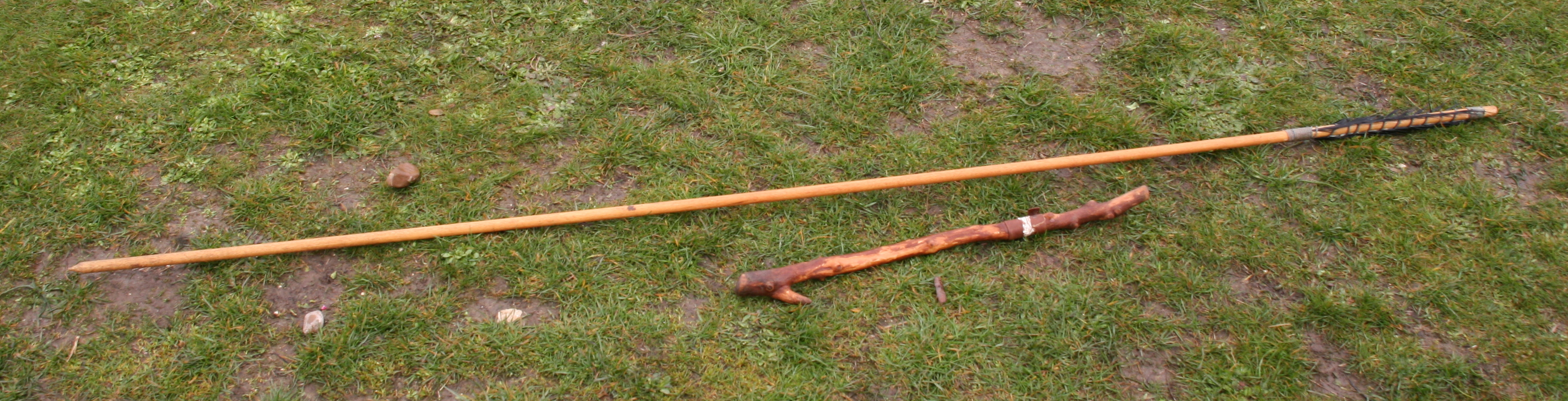 Spear-thrower and spear made in wood.